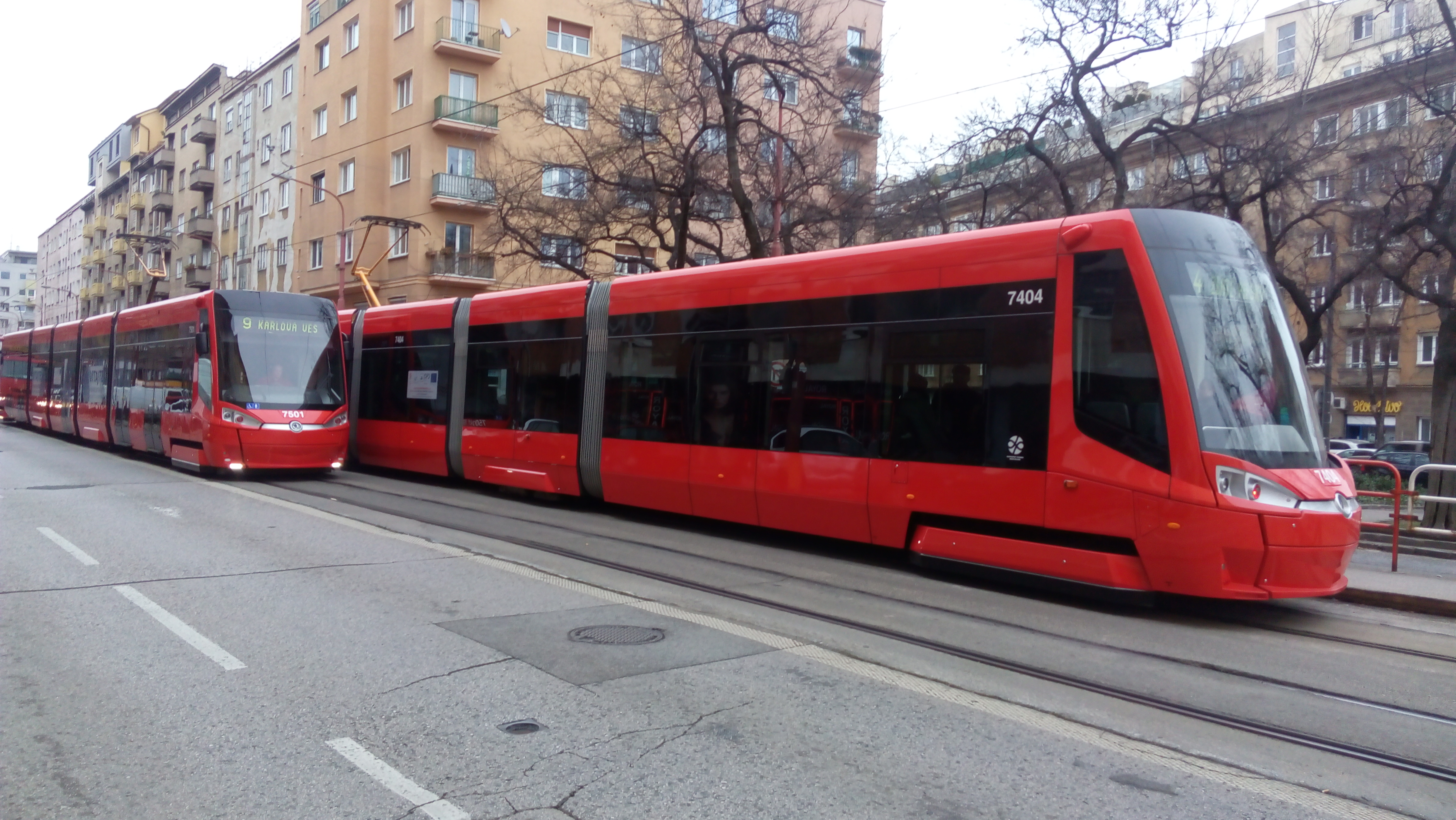 Škoda 29 T tram #7404 at Krížna in BratislavaSlovenčina: Električka Škoda 29 T #7404 na Krížnej v Bratislave